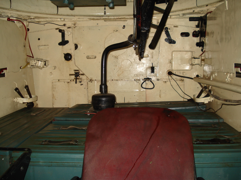 Interior of a Soviet T-34/85 tank displayed in Finnish Tank Museum (Panssarimuseo) in Parola. Photo taken on July 14, 2006. Source: Photo by me, User:Balcer.